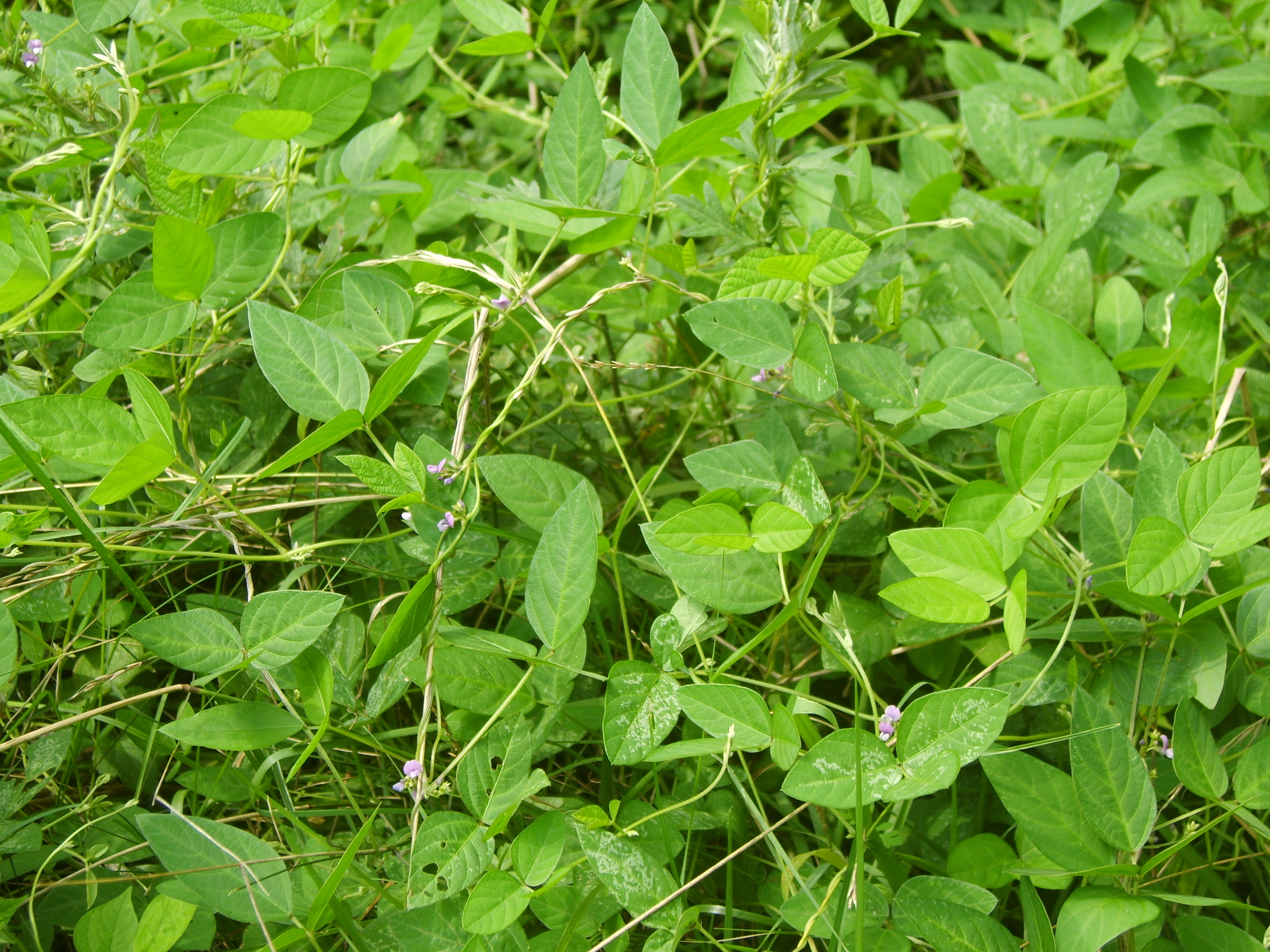 Glycine soja in Woninjae, Korea